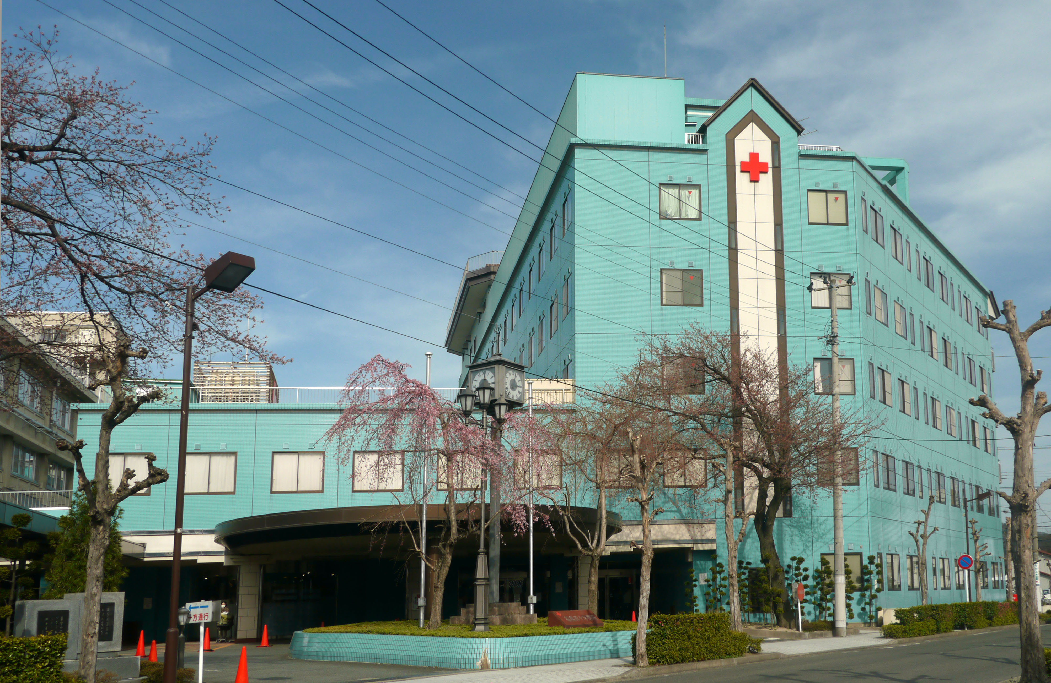 Fukushima Red Cross Hospital in Fukushima, Fukushima, Japan